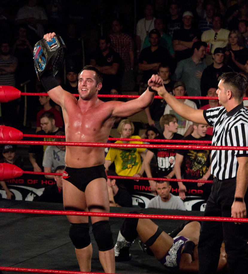 Roderick Strong: New TV Champ